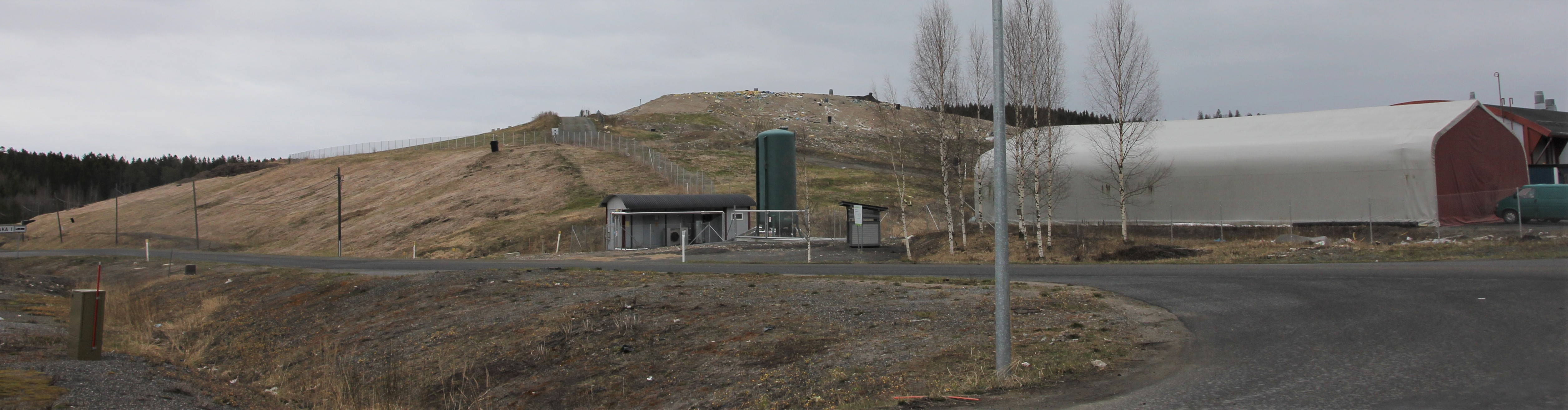 Kuopio Waste Center is a former landfill, currently recycling or reusing (including bioenergy production and waste incineration) over 99 percent of the incoming waste in Kiviharju, Kuopio, Finland.